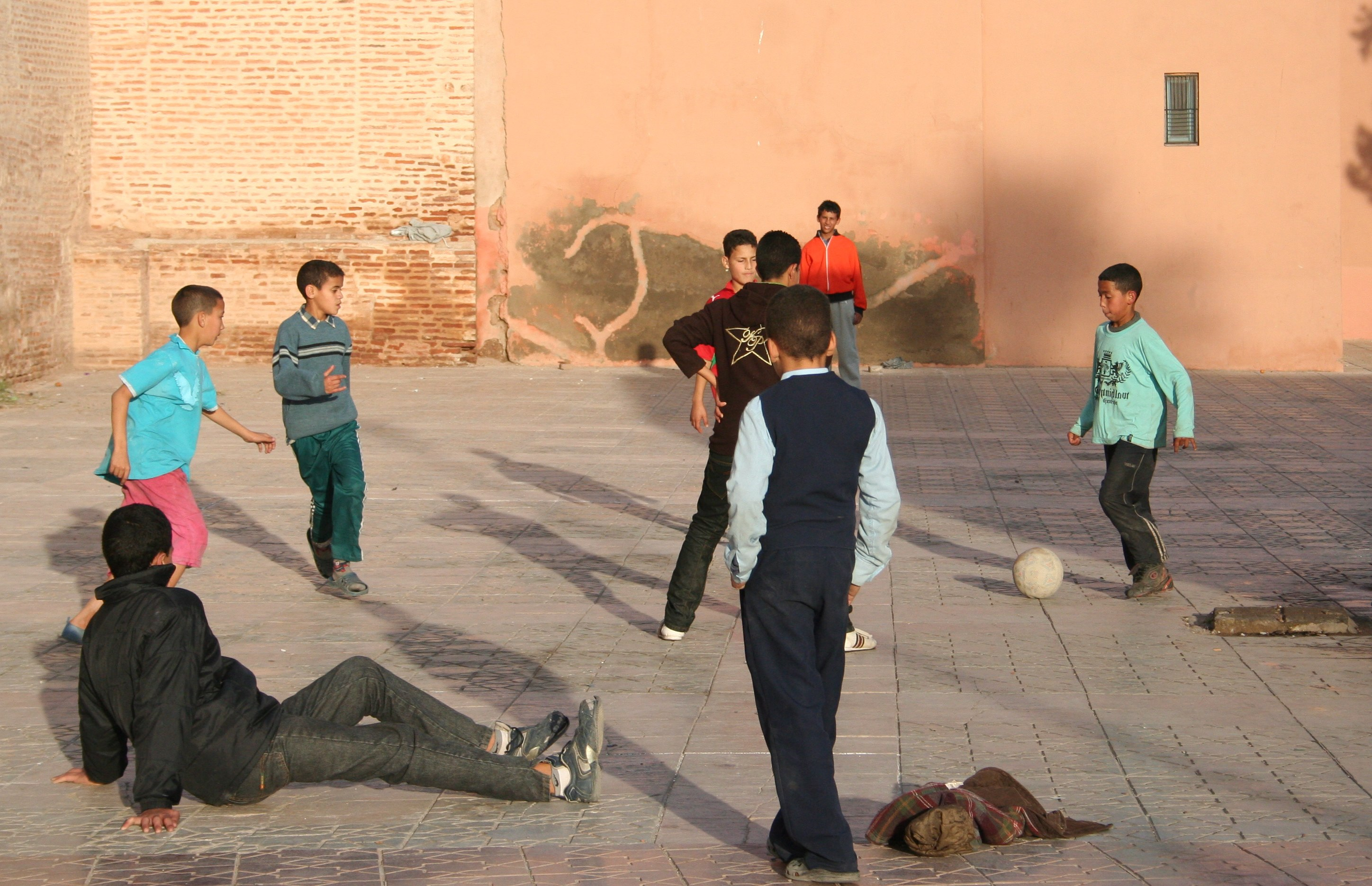 Street Football in Marrakech, Morocco